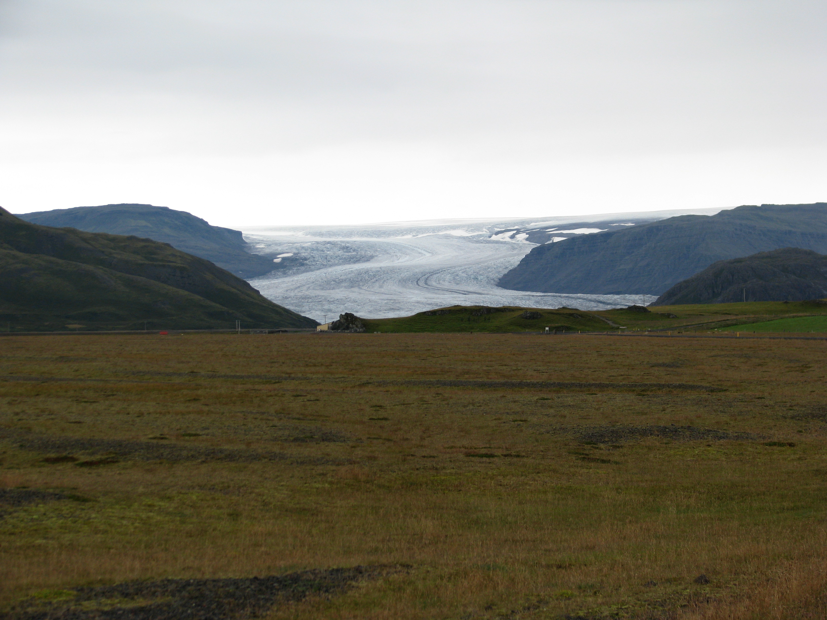 Hoffellsjökull, glacier, Iceland